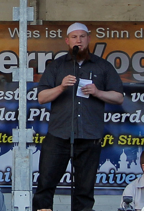 Salafist preacher Pierre Vogel in Koblenz